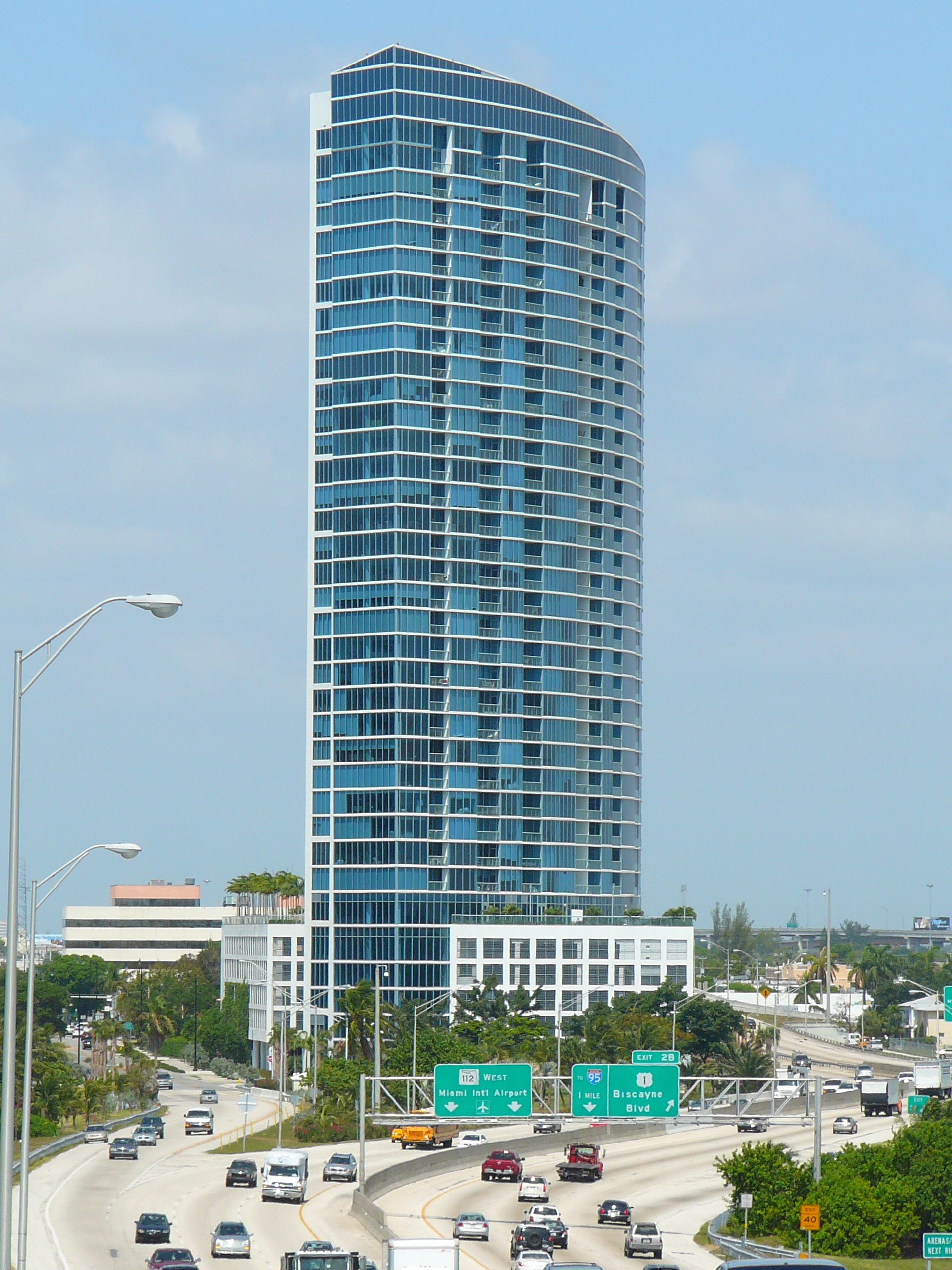 Digital photo taken by Marc Averette. Blue on the Bay in Midtown Miami from the east 5/16/2008